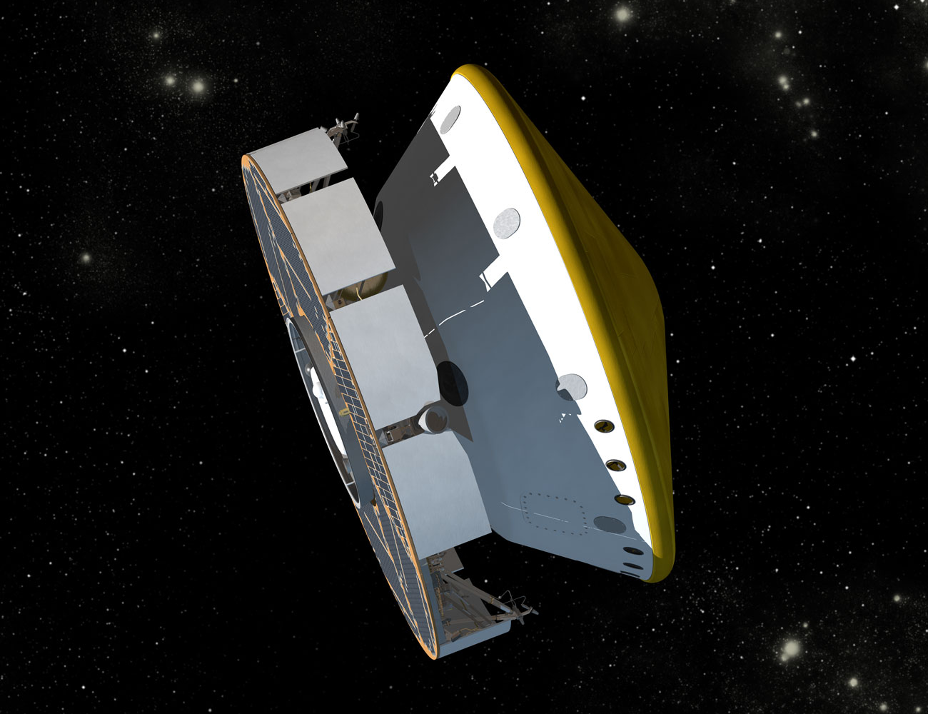 This is an artist's concept of NASA's Mars Science Laboratory spacecraft during its cruise phase between launch and final approach to Mars. The spacecraft includes a disc-shaped cruise stage (on the left) attached to the aeroshell. The spacecraft's rover (Curiosity) and descent stage are tucked inside the aeroshell.